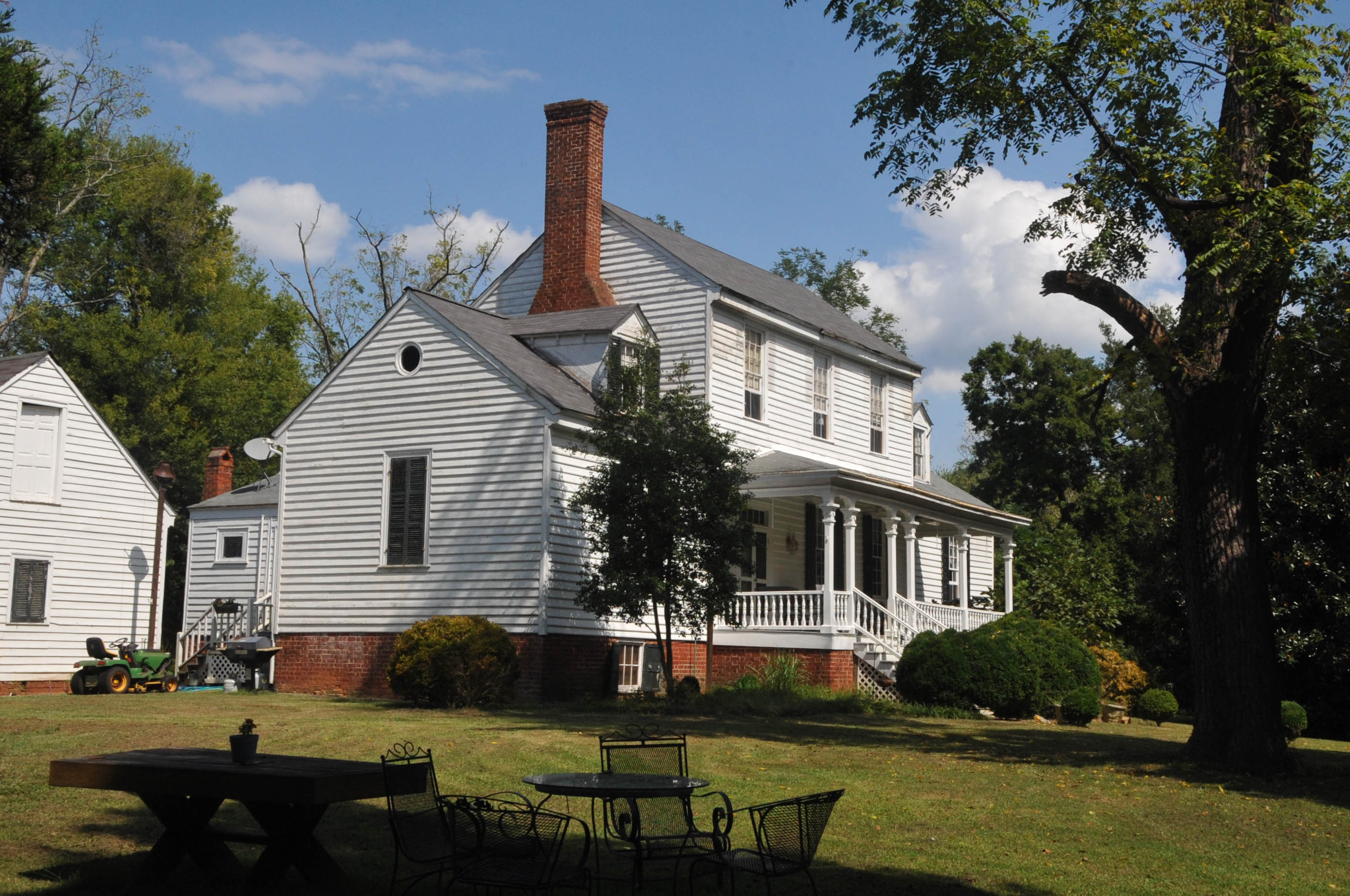 BUILT SOMETIME AFTER 1812, BY WILLIAM CAIN II, WHO WAS BORN IN 1784.